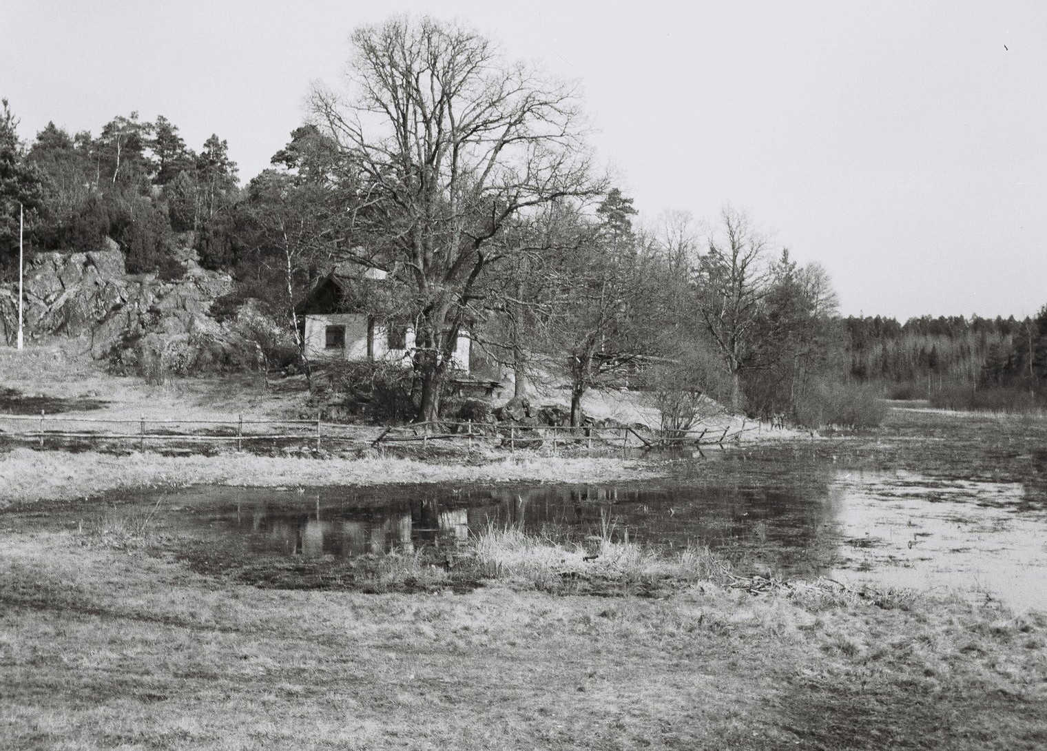 Brotorp 1952